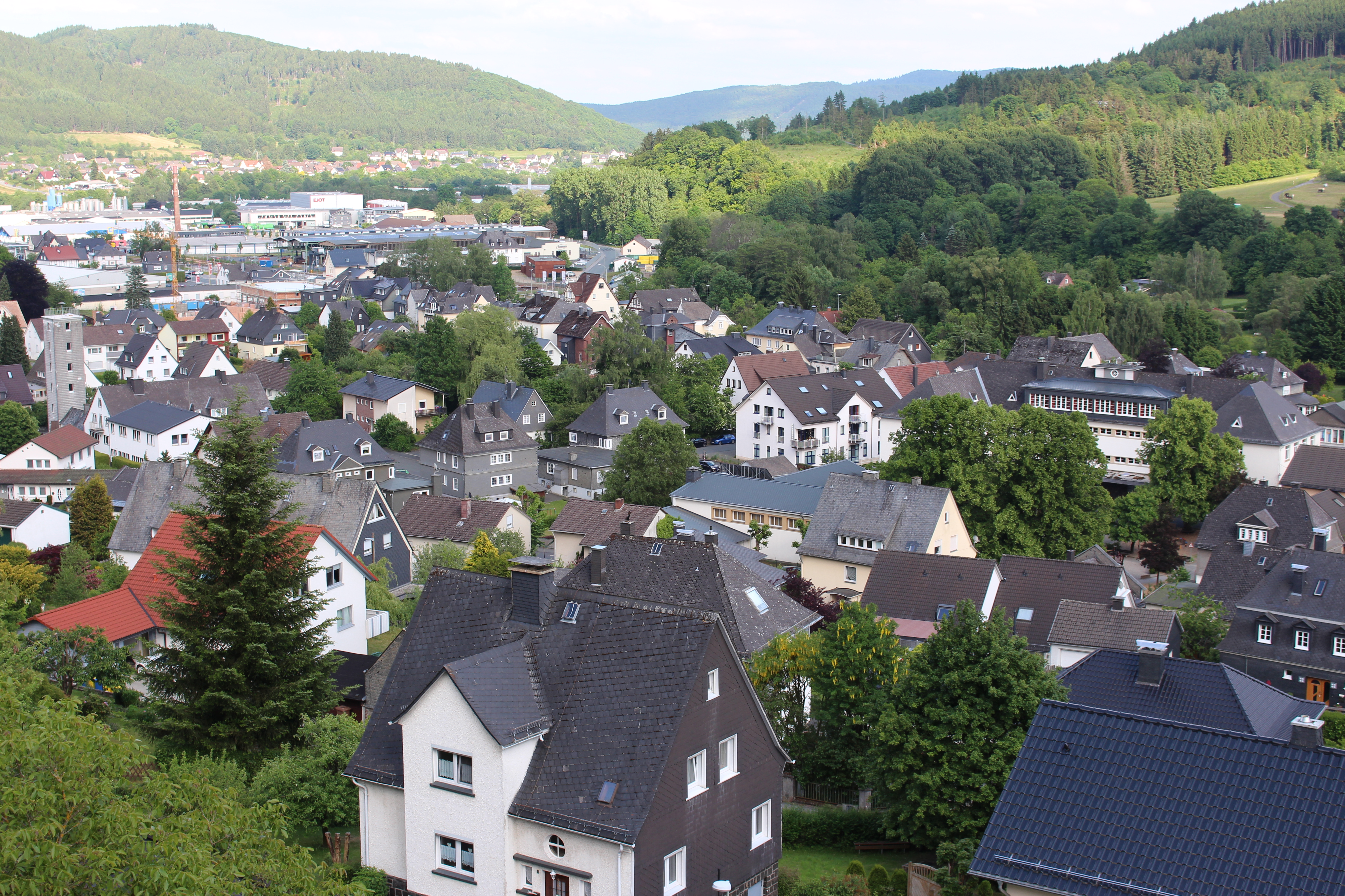 View on the city of Bad Laasphe, NRW, Germany.